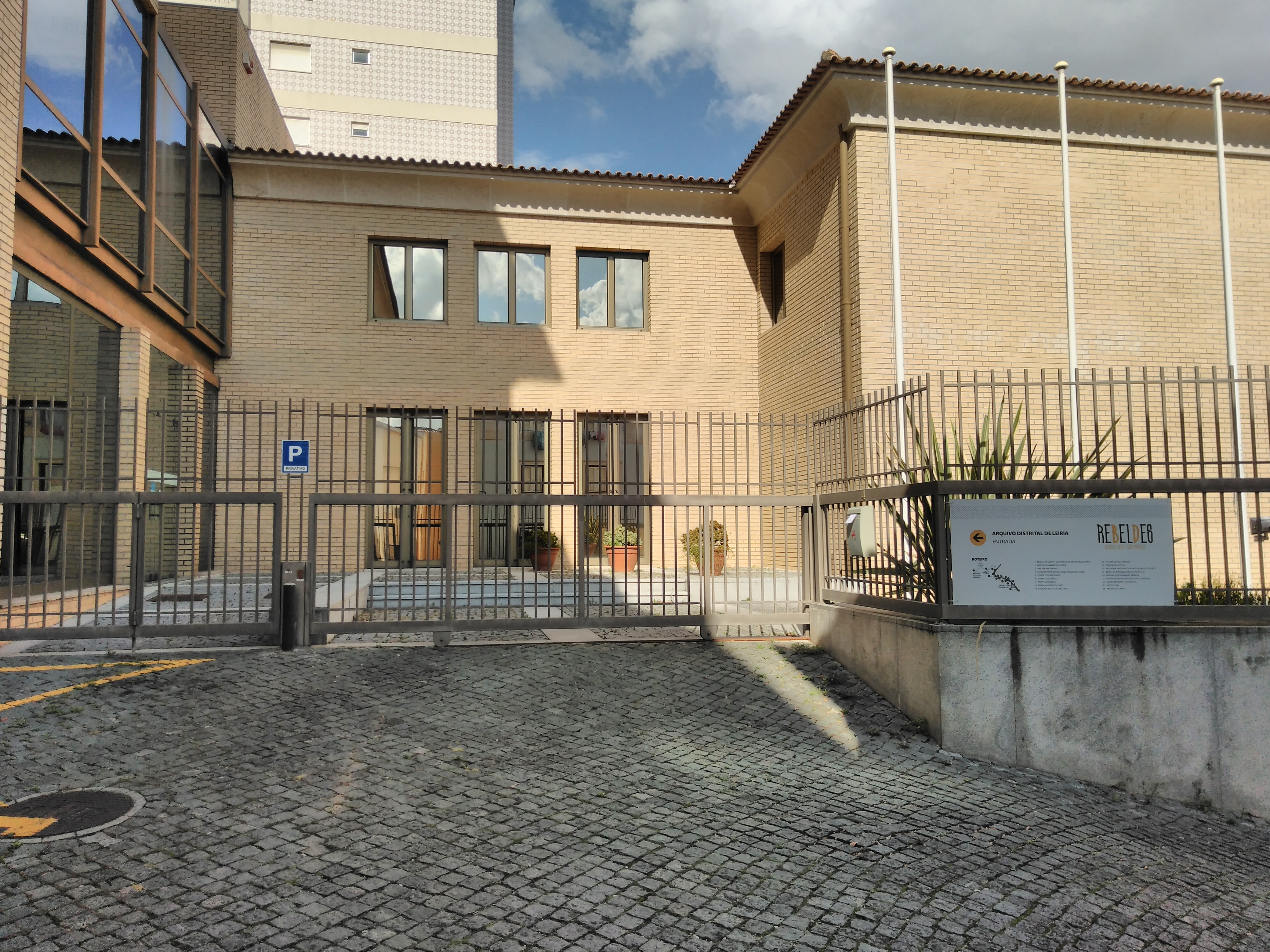 Archives of Leiria